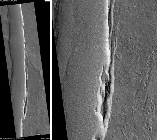 Artynia Catena, as seen by hirise. Location is 47.4 north and 240.6 east. Scale bar is 1000 meters long. Image was taken by the Mars Reconnaissance Orbiter's HiRISE. The HiRISE camera was built by Ball Aerospace and Technology Corporation and is operated by the University of Arizona. Image courtesy NASA/JPL/University of Arizona.